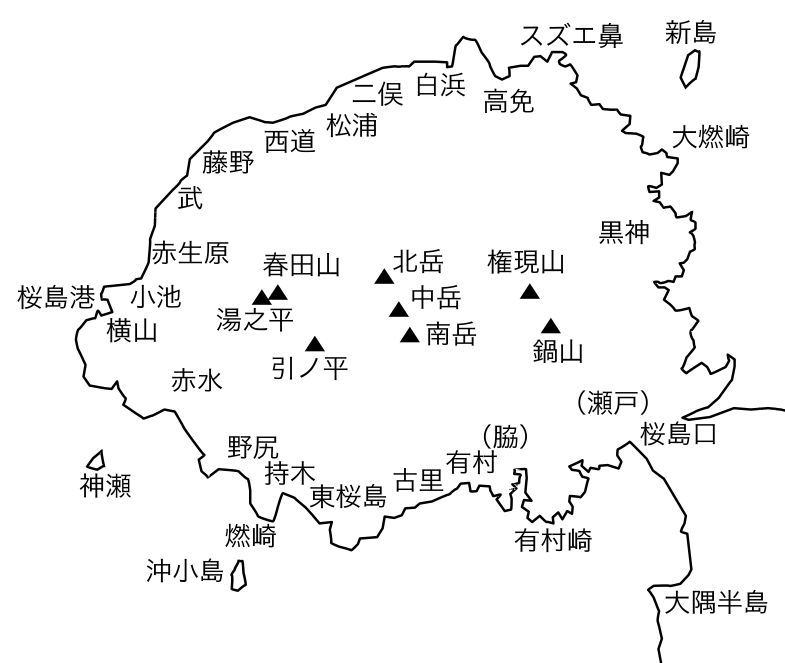 A map of villages and mountains in Sakurajima. (桜島の集落と山の地図。)